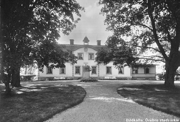 The manor Stadra outside Nora, Sweden